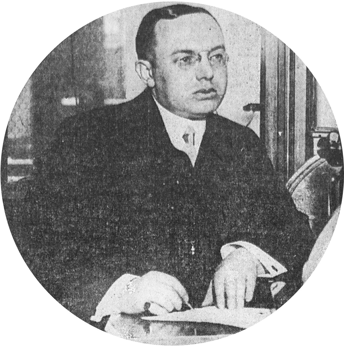 ARMGAARD KARL GRAVES - Who asserts he was for years a spy in the employ of the German Foreign Office. He is now writing a play dealing with life in spydom, which will soon be produced on Broadway.